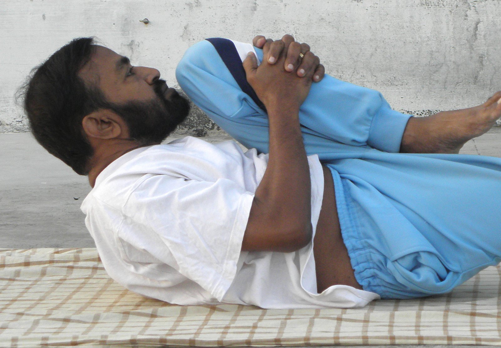 Gas_release_pose